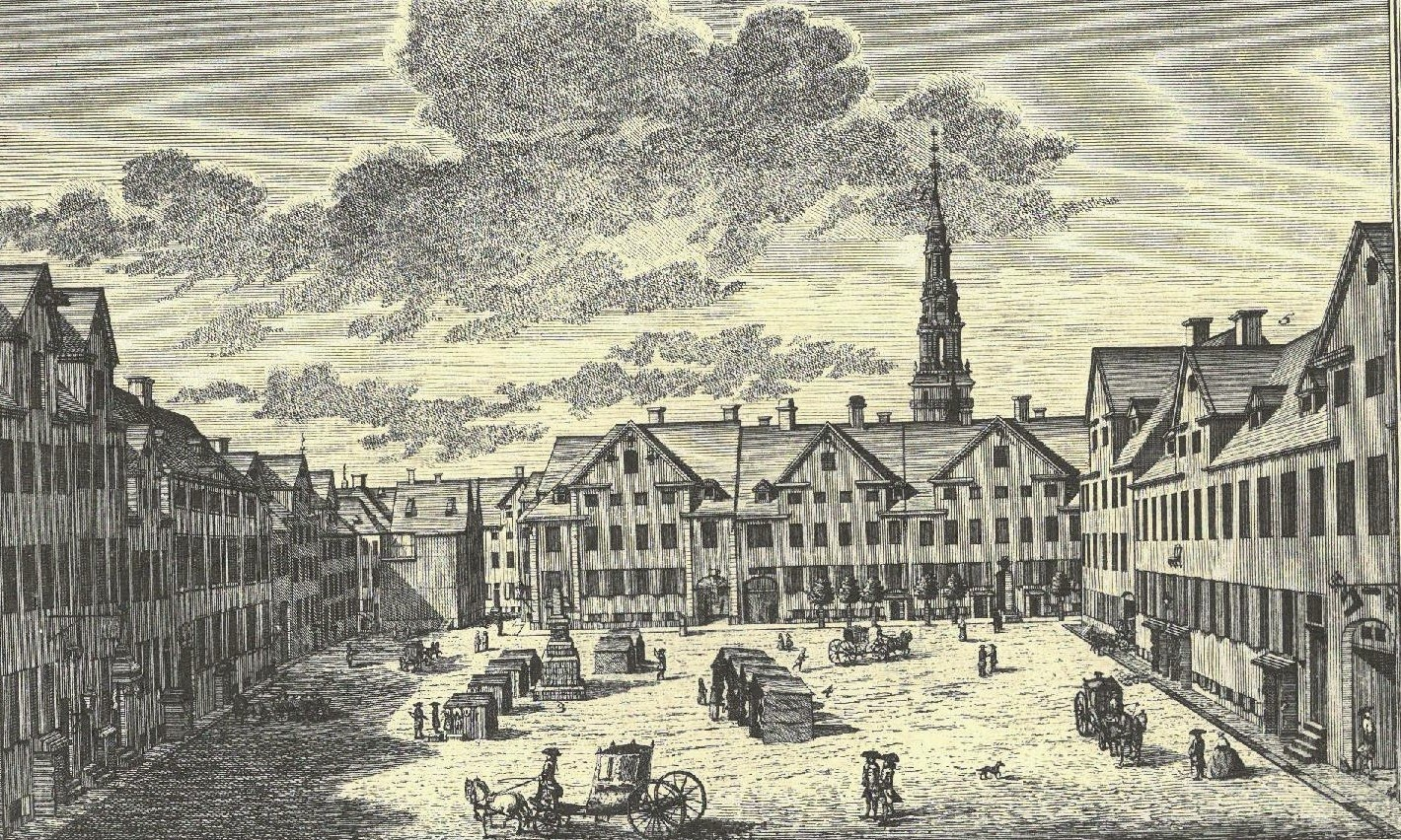 Ylfeldts Plads, now Gråbrødretorv, in Copenhagen, Denmark